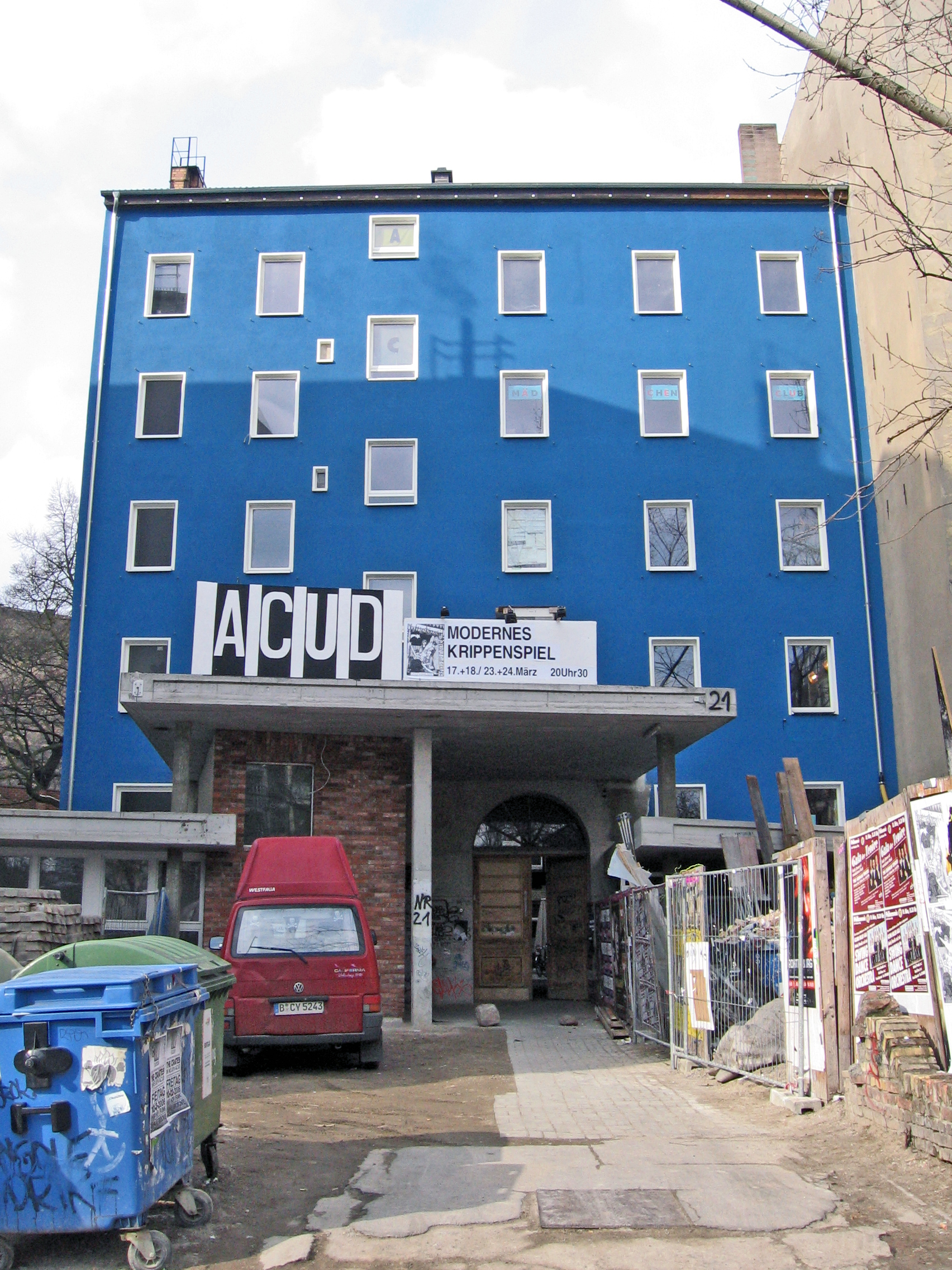 ACUD arts centre, Berlin, Germany